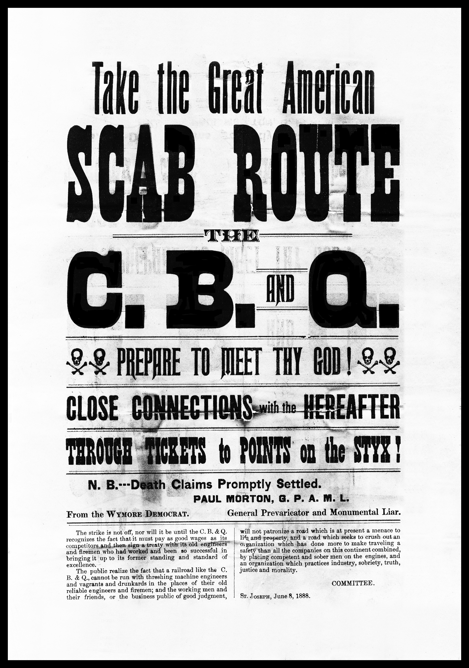 June 1888 Strike Poster from the bitter Chicago, Burlington & Quincy railroad strike. The poster warns customers of potential peril at the hands of incompetent strikebreaking locomotive engineers and firemen.